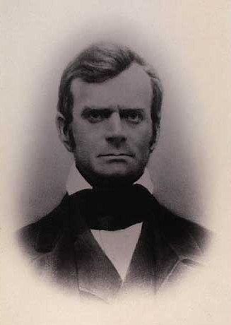 Carl Emil Mundt (1802-1873), Danish mathematician and politician, MP